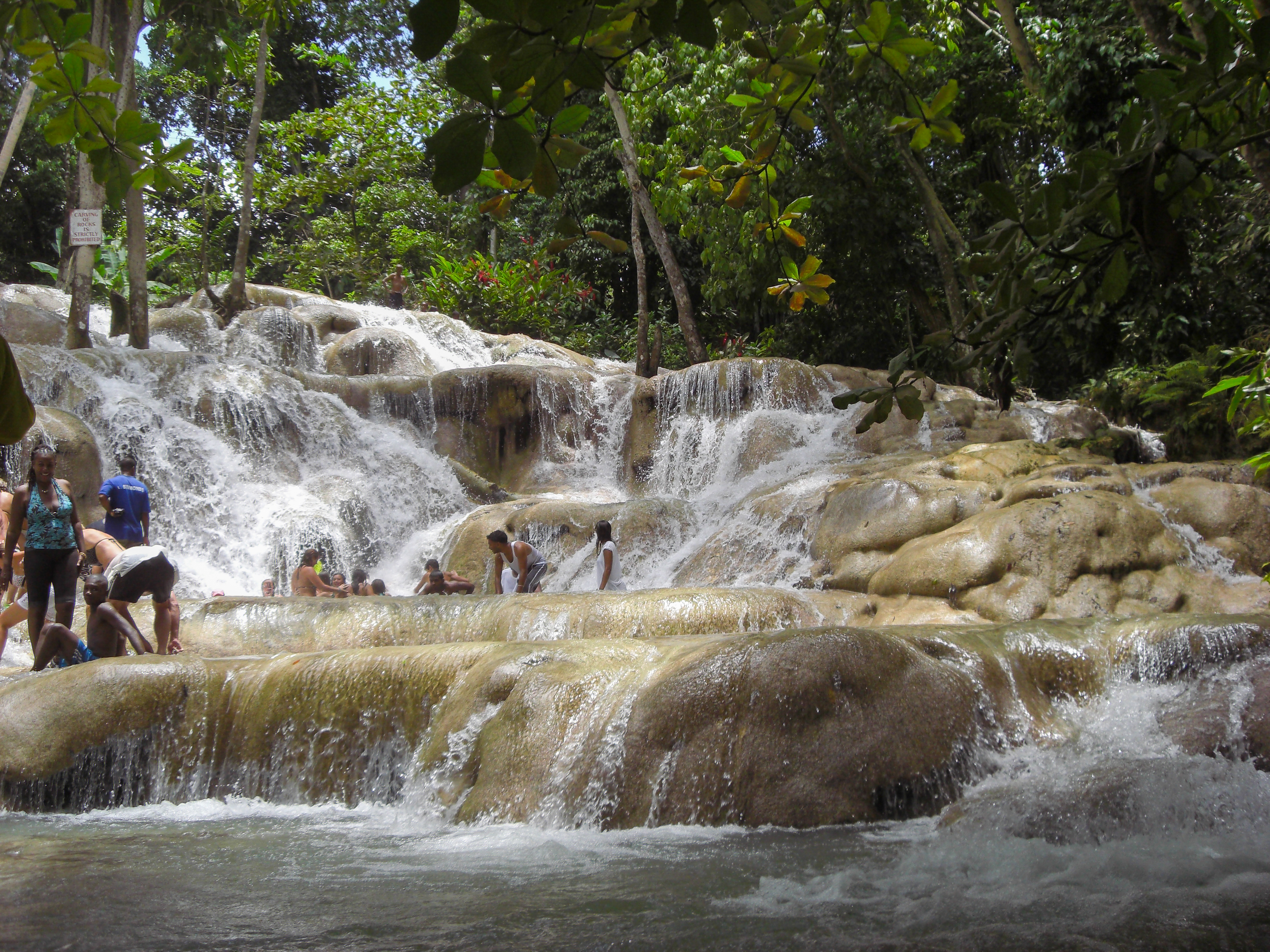 Dunns River Falls, Ocho Rios, Jamaica